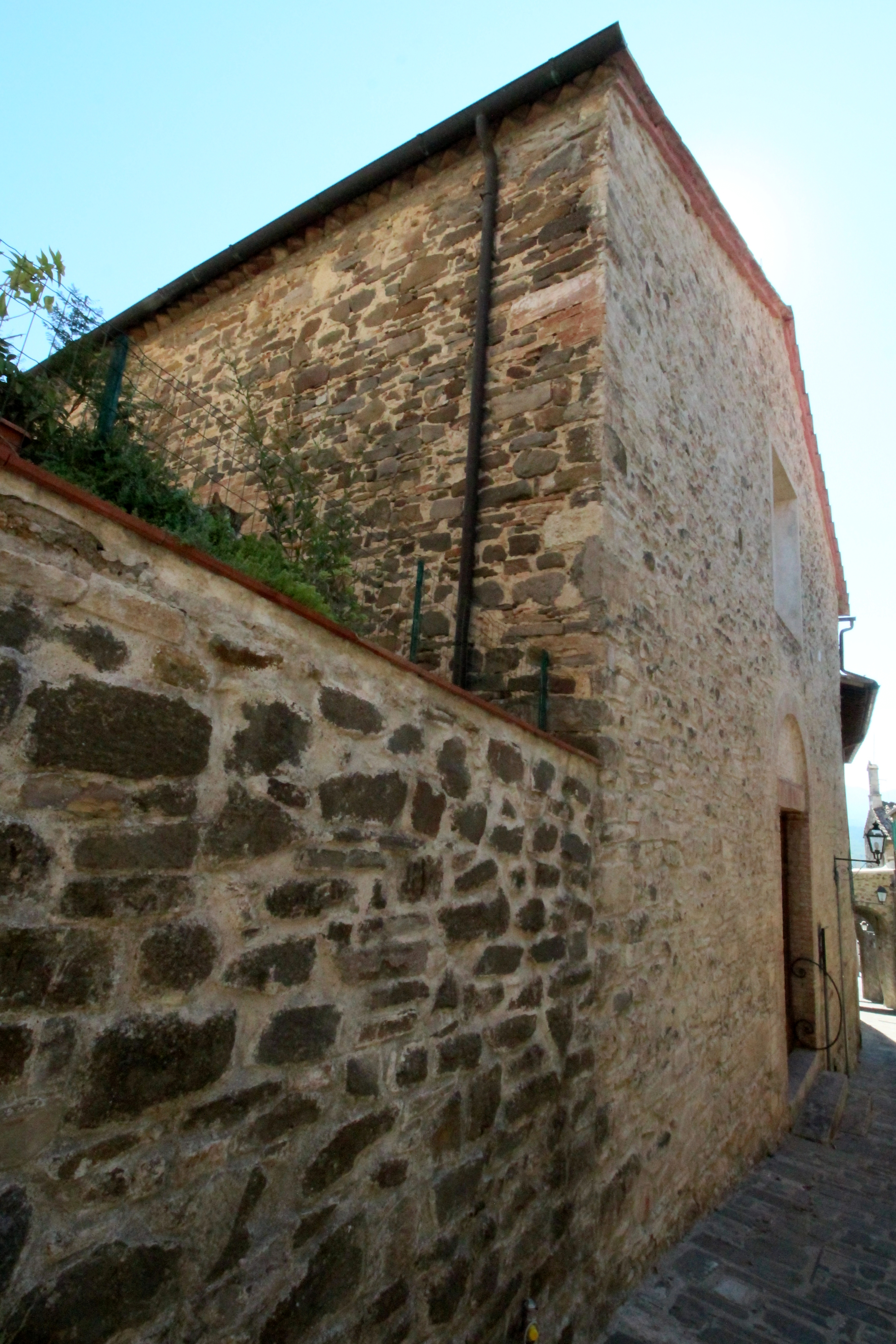 Church Santa Lucia, Montenero d’Orcia, hamlet of Castel del Piano, Province of Grosseto, Tuscany, Italy